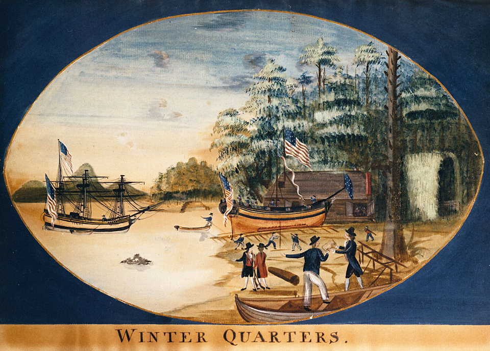 A painting showing the 1791-92 winter quarters established in Captain Robert Gray and the crew of the Columbia Rediviva. The location was Adventure Cove in Clayoquot Sound. The main building was dubbed Fort Defiance. During the winter Captain Gray's crew built the Adventure, visible in front of the main building. The Columbia is at anchor, topmasts removed. The painting appears to include a self-portrait of George Davidson showing his painting to Captain Gray.